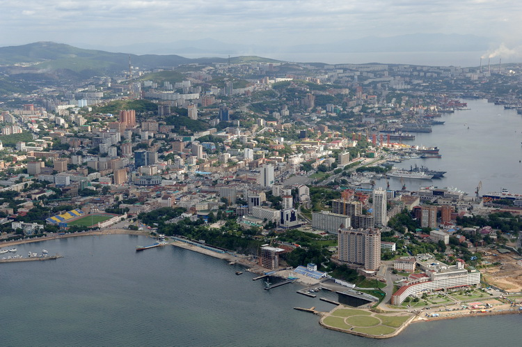 Dynamo Stadium, Okean cinema, Zolotoy Rog